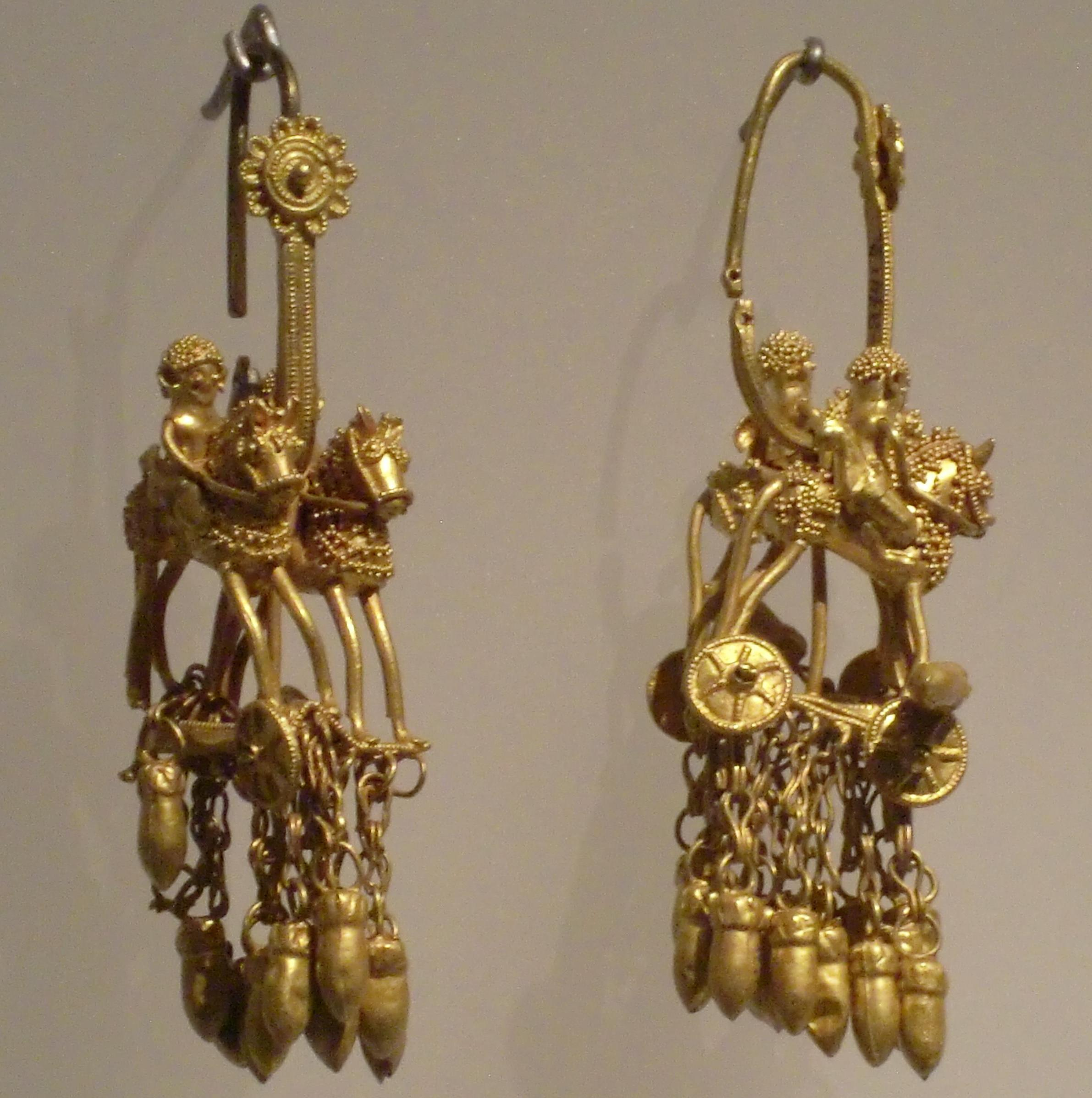 With thanks to the Georgian National museum for allowing photography